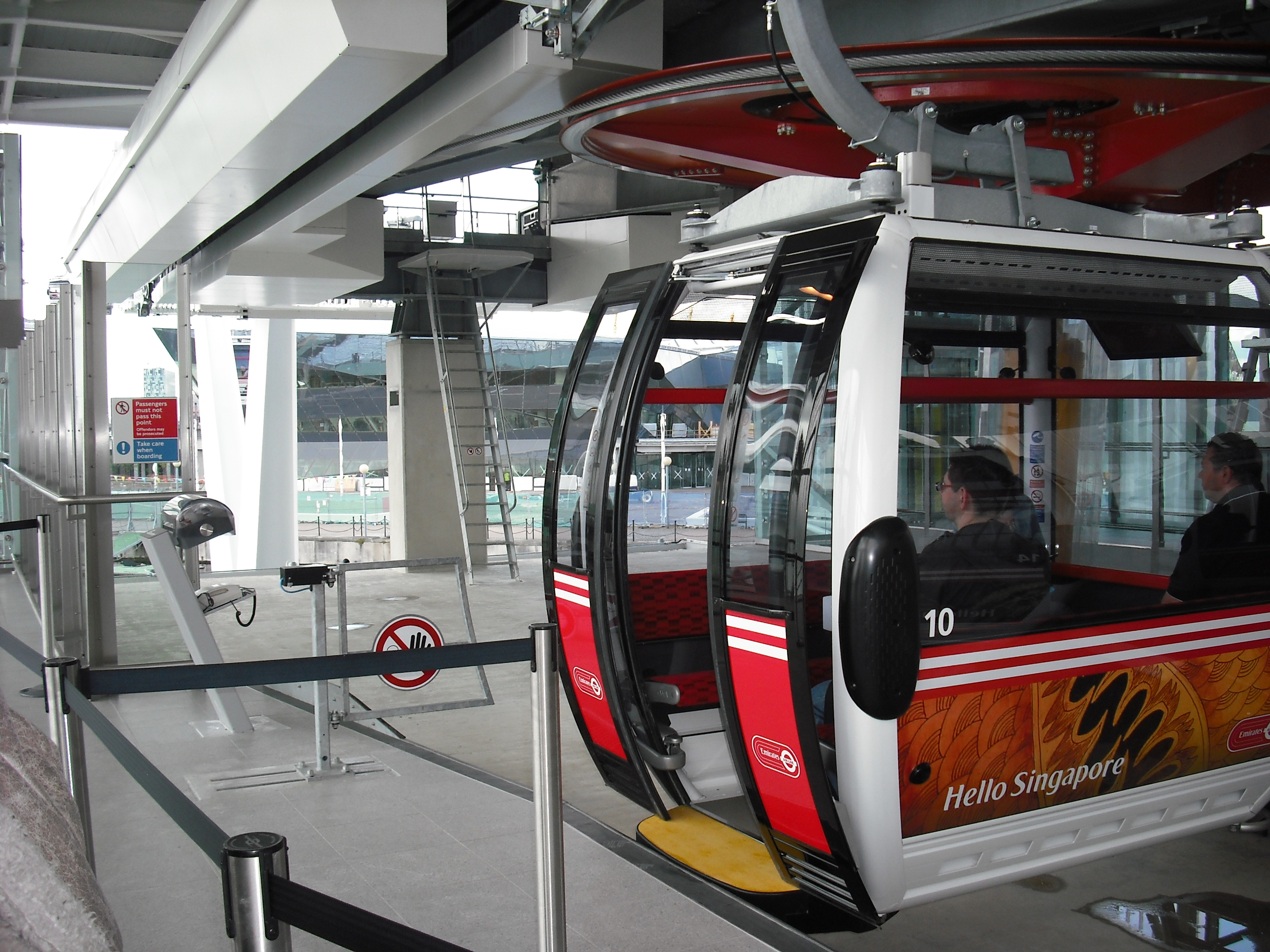 A look at the cable car from the terminal of the Emirates Air Lift.